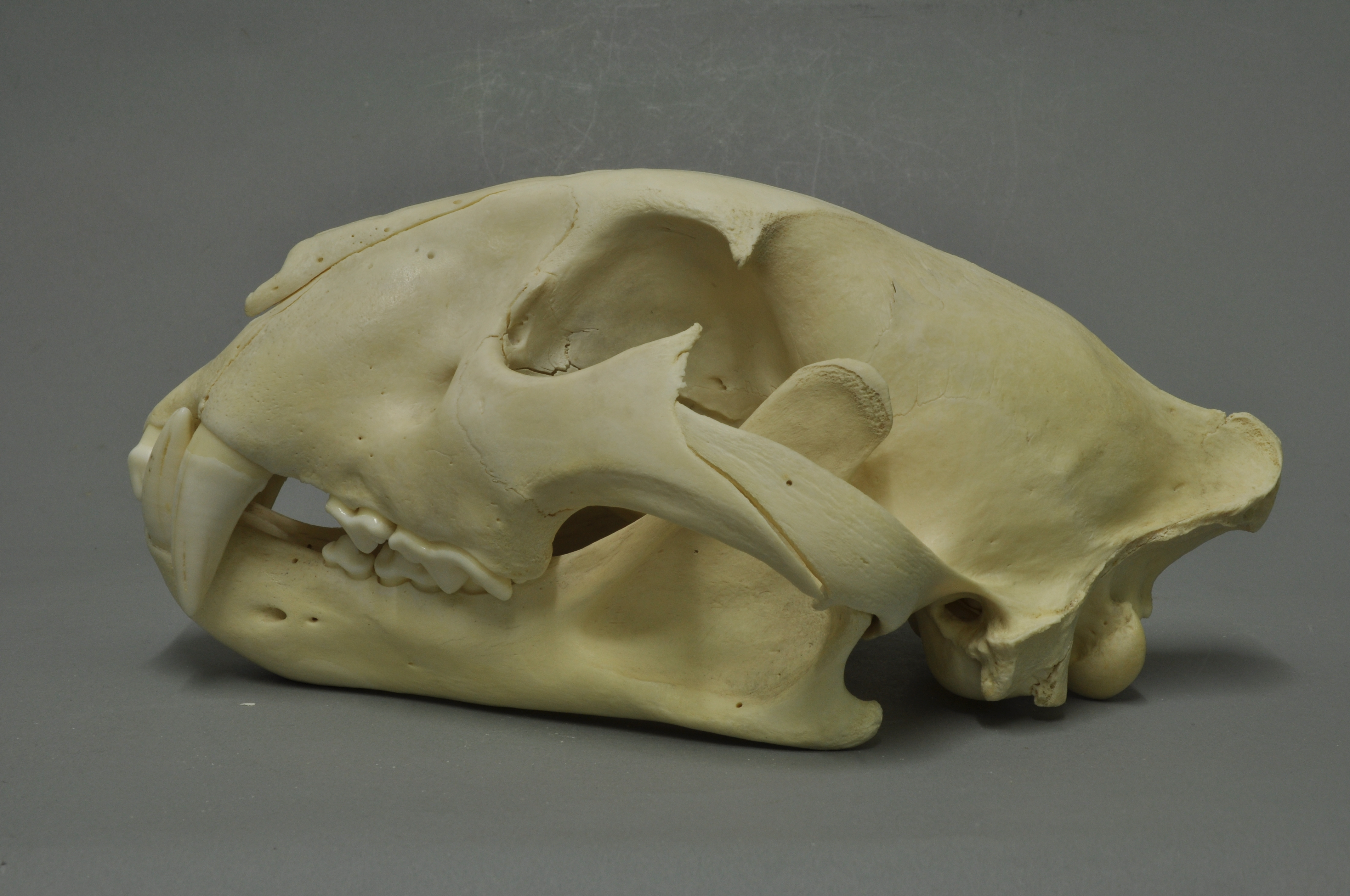 Javan tiger Panthera tigris sondaica, skull, Coll. Museum Wiesbaden